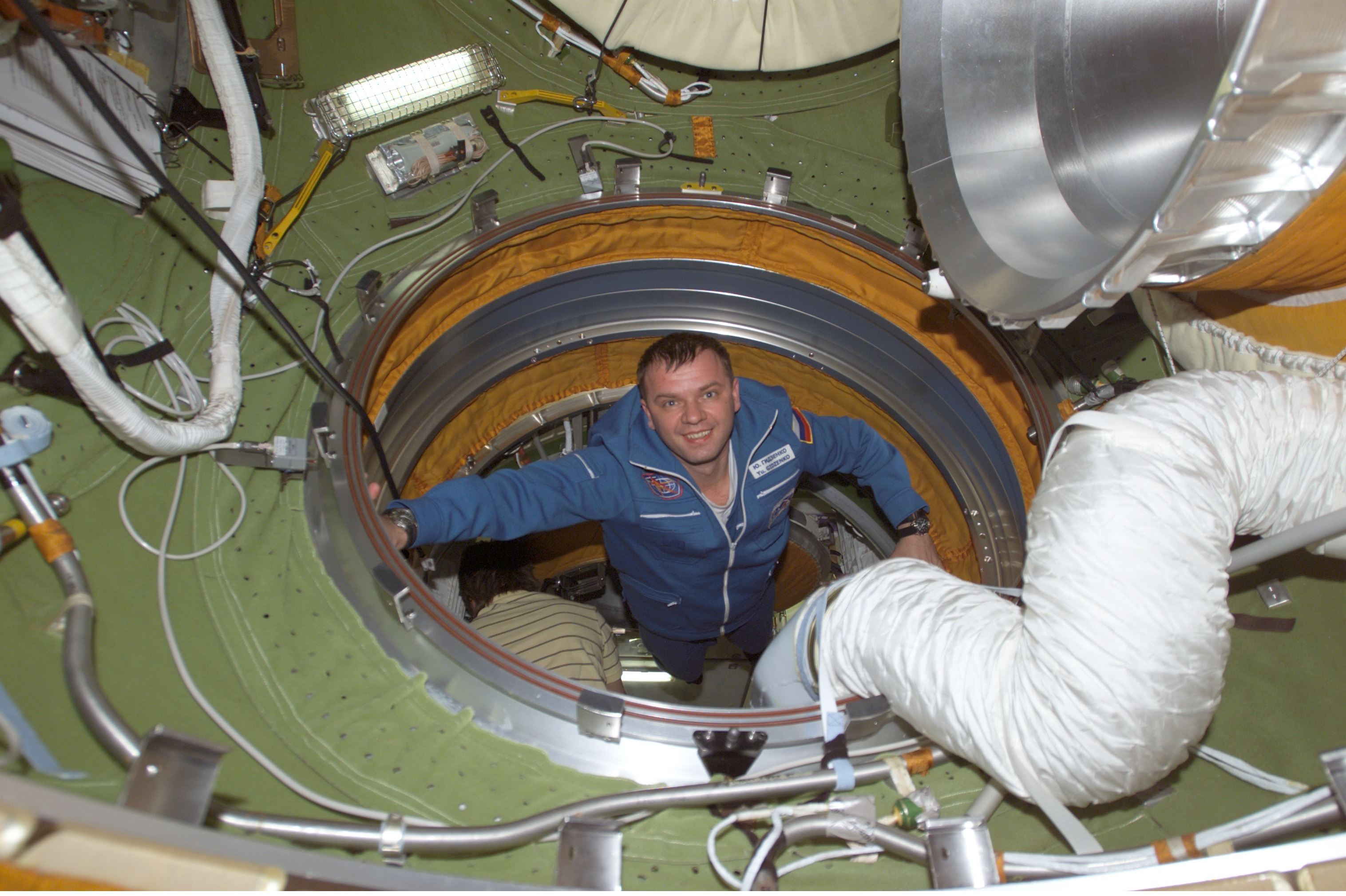 Soyuz Taxi Commander Yuri Gidzenko, representing Rosaviakosmos, enters the functional cargo block’s (FGB) pressurized adapter on the International Space Station (ISS). Gidzenko, who is making his third flight into space, is the first former resident of the ISS to return to the complex, having been a member of the Expedition One crew, the first crew to live aboard the station. The “taxi” crew arrived at the orbital outpost on April 27, 2002 at 2:56 a.m. (CDT) as the two vehicles flew over Central Asia.